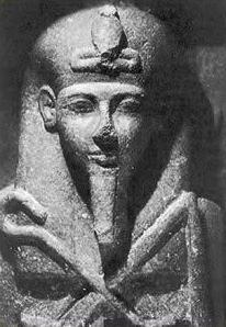 Pharaoh Siptah, photo taken by John D. Croft in Egypt in November 2006